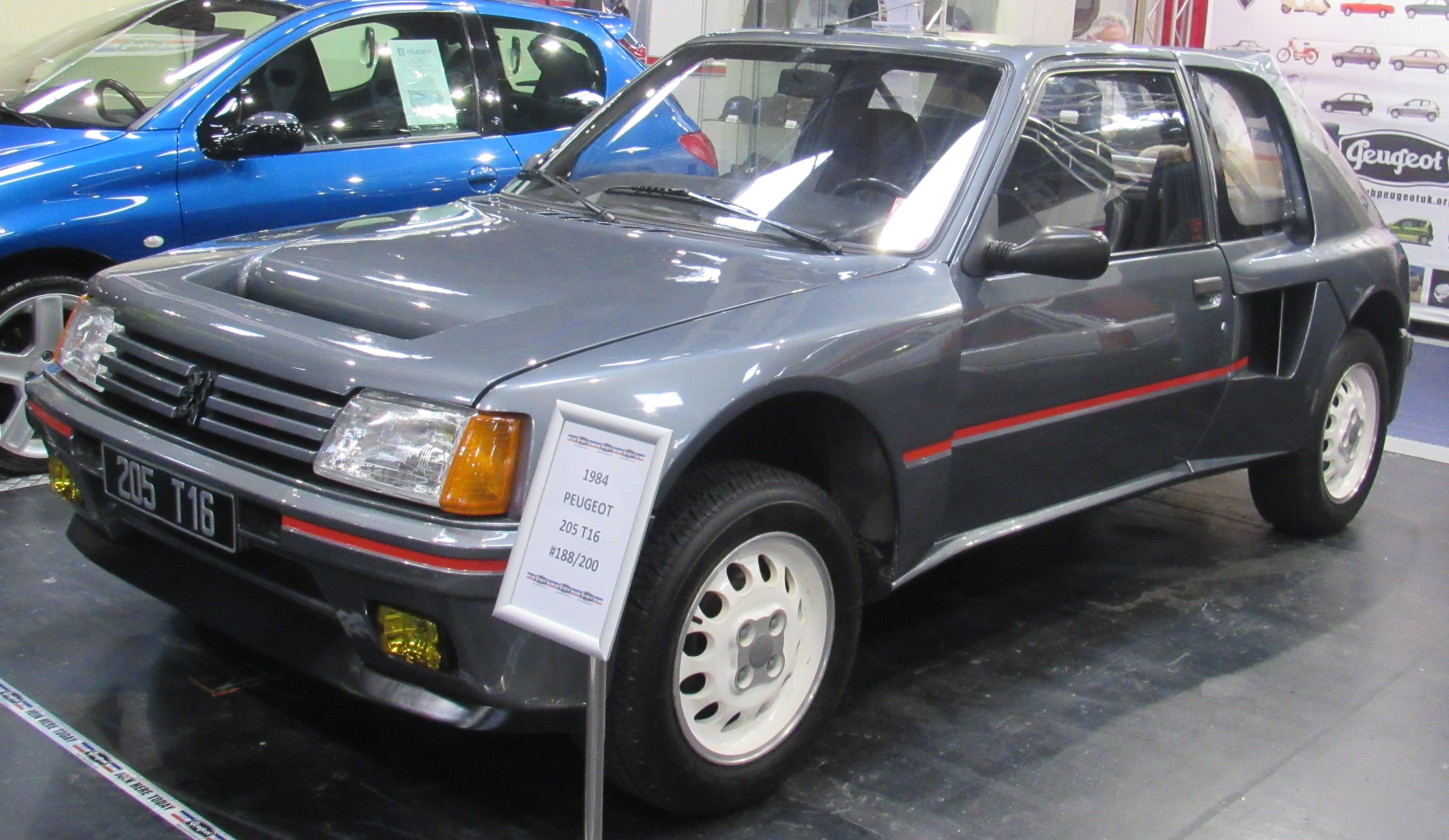 1984 Peugeot 205 T16 1.8 Taken at the NEC Classic Motor Show 2017